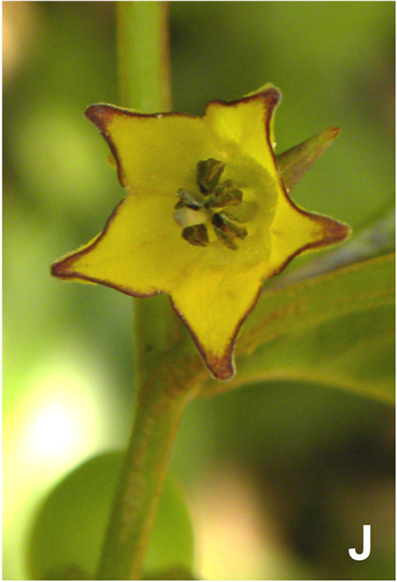 Part J of Fig 4. Capsicum longifolium Barboza & S. Leiva. (A) Plant. (B) Internode with lenticels. (C, D) Flower buds. (E) Flower, longitudinal section. (F) Flowers showing corolla yellow with brownish center. (G) Same flower as in F, lateral view. (H, I) Flowers with completely yellow corollas, upper and lateral view, respectively. (J, K) Flowers with yellow corollas with red-brown edges, upper and lateral view, respectively. (L, M) Immature fruits. (N) Mature fruit. Photos by S. Leiva González and G. E. Barboza.